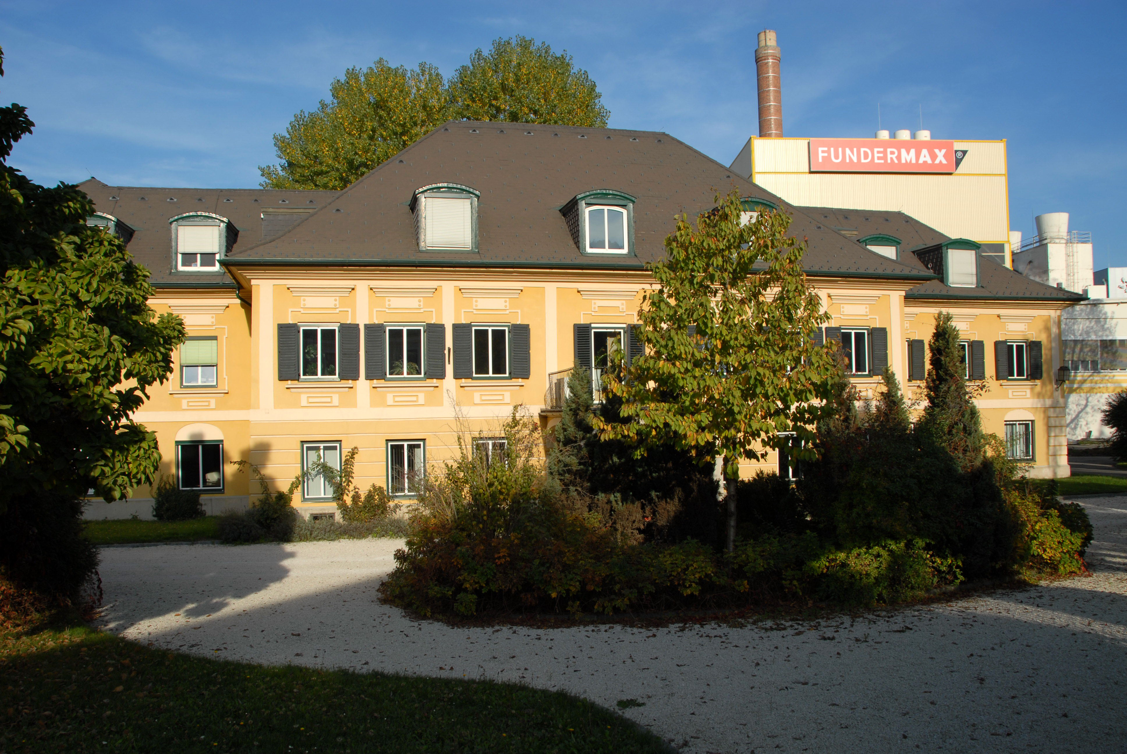 Mansion at Glandorf, Sankt Veit an der Glan, Carinthia, Austria (administration office-building of the facility FUNDER-MAX)